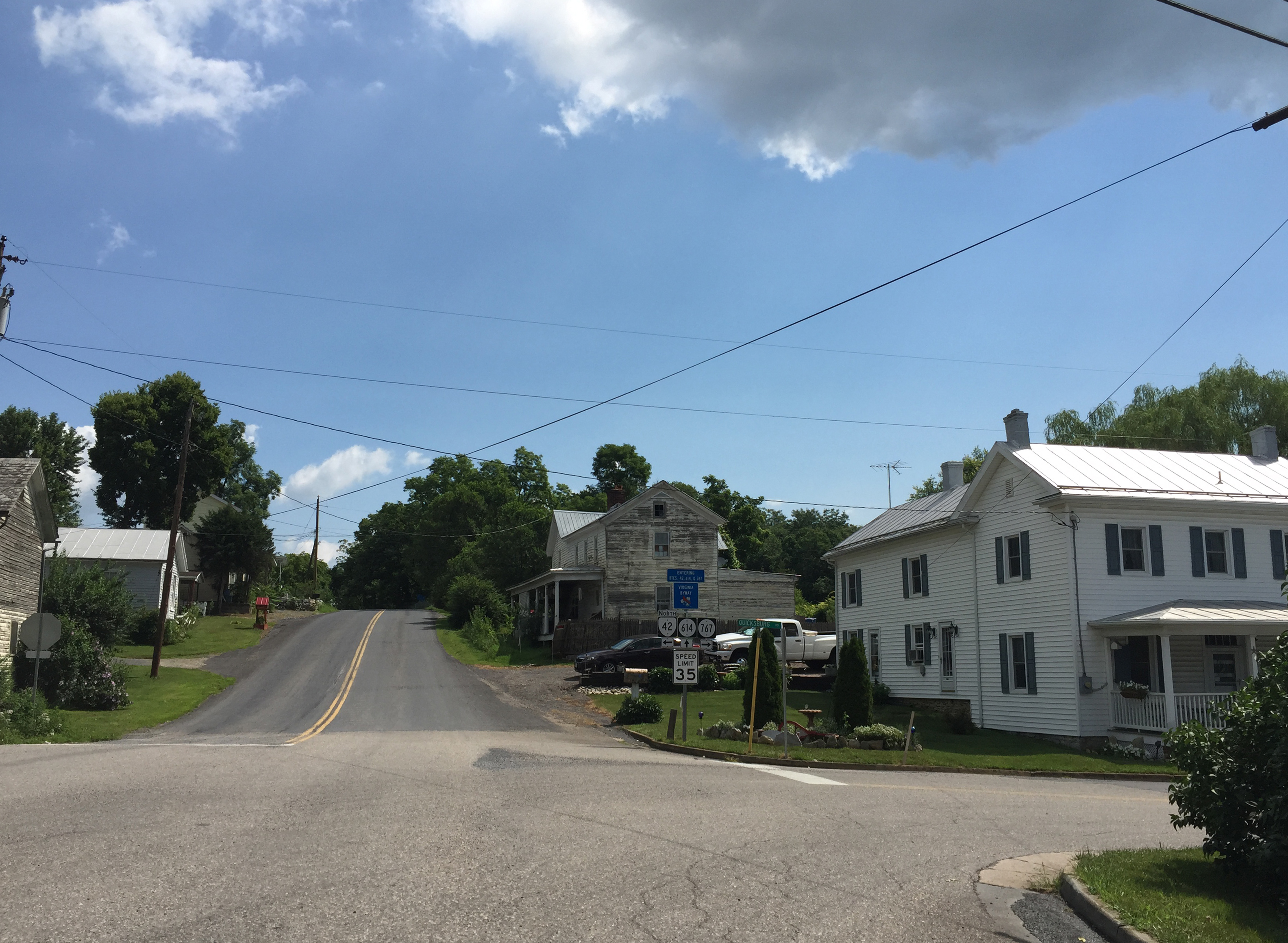 View north along Middle Road (Virginia State Secondary Route 614) from Virginia State Route 42 (Senedo Road) in Forestville, Shenandoah County, Virginia